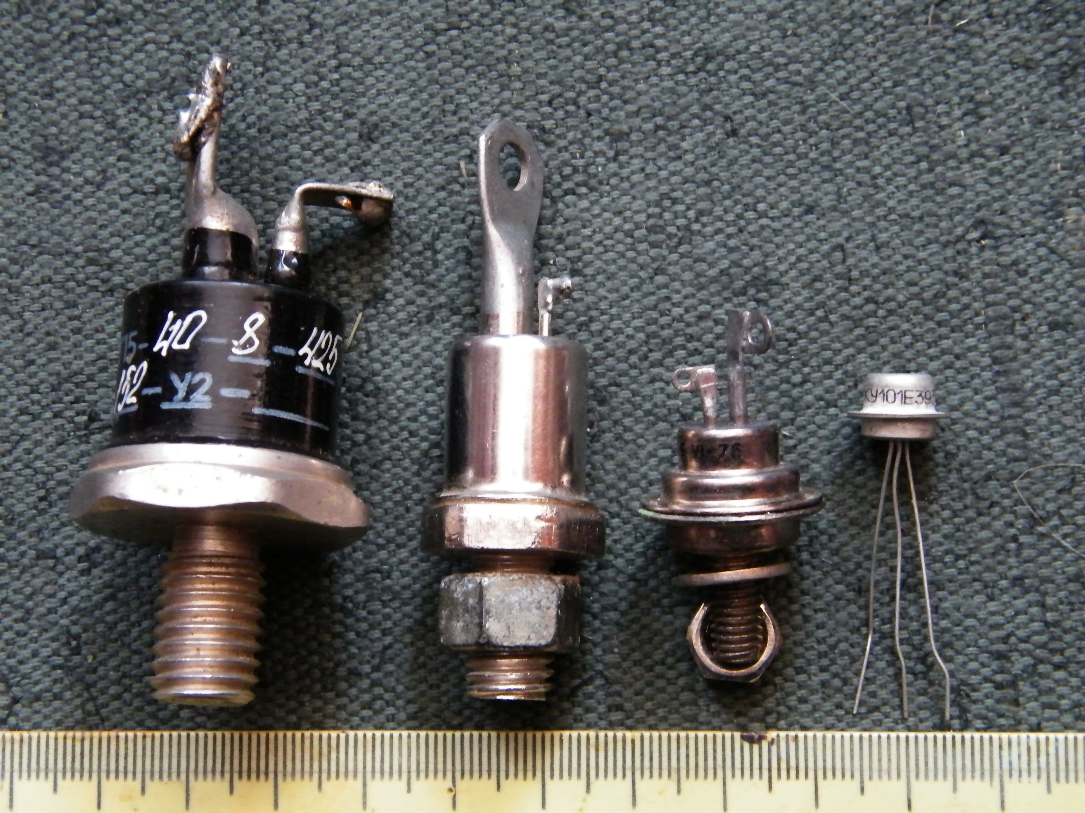 Thyristors